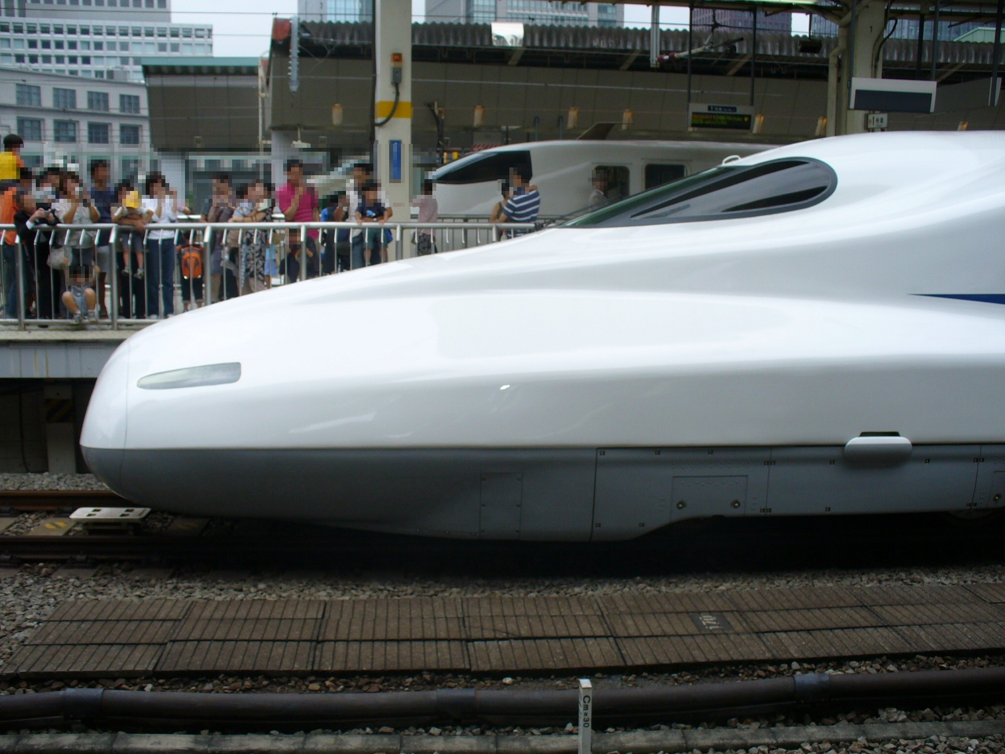 Nose of Shinkansen N700 Series